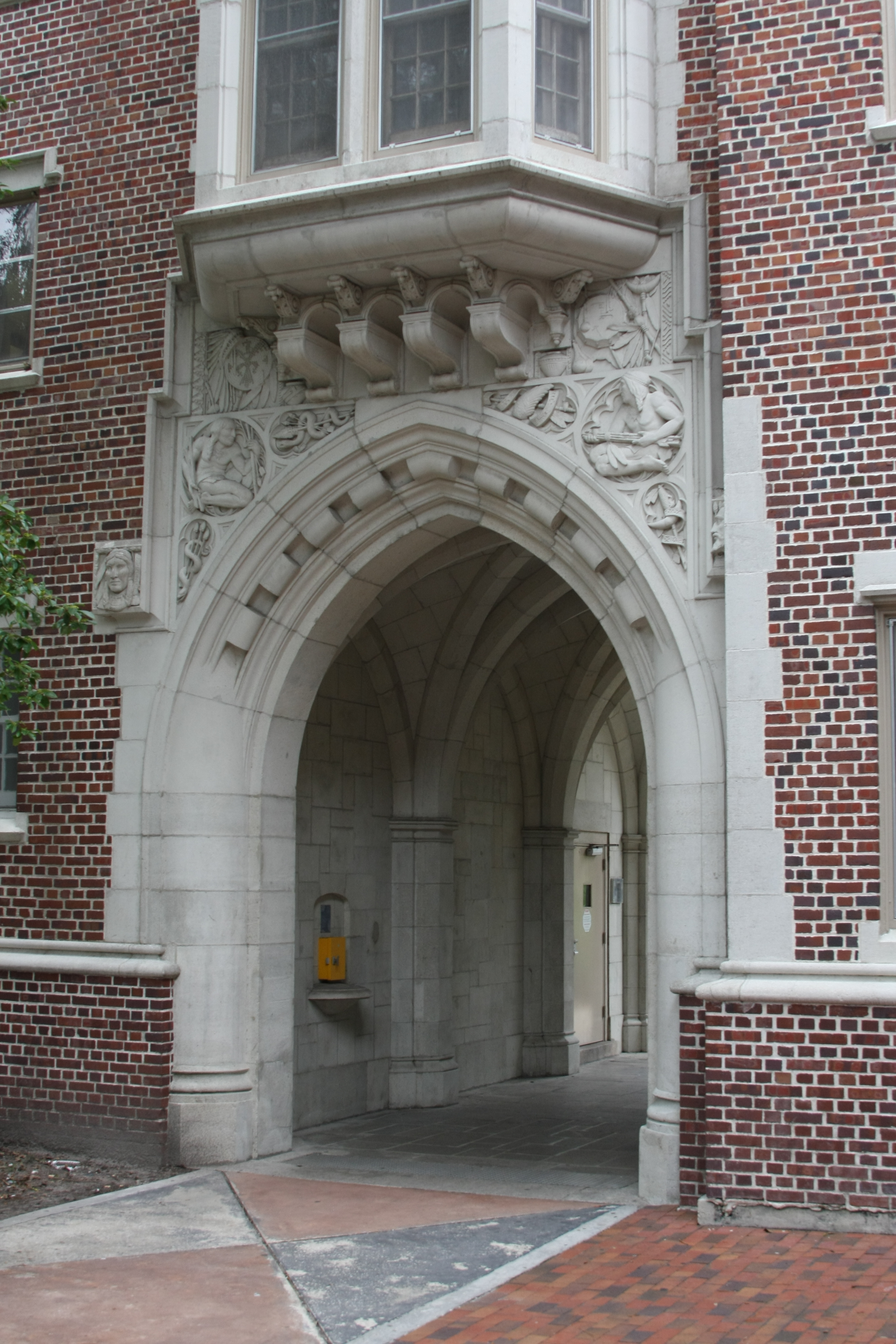 Archway in Sledd Hall at the University of Florida